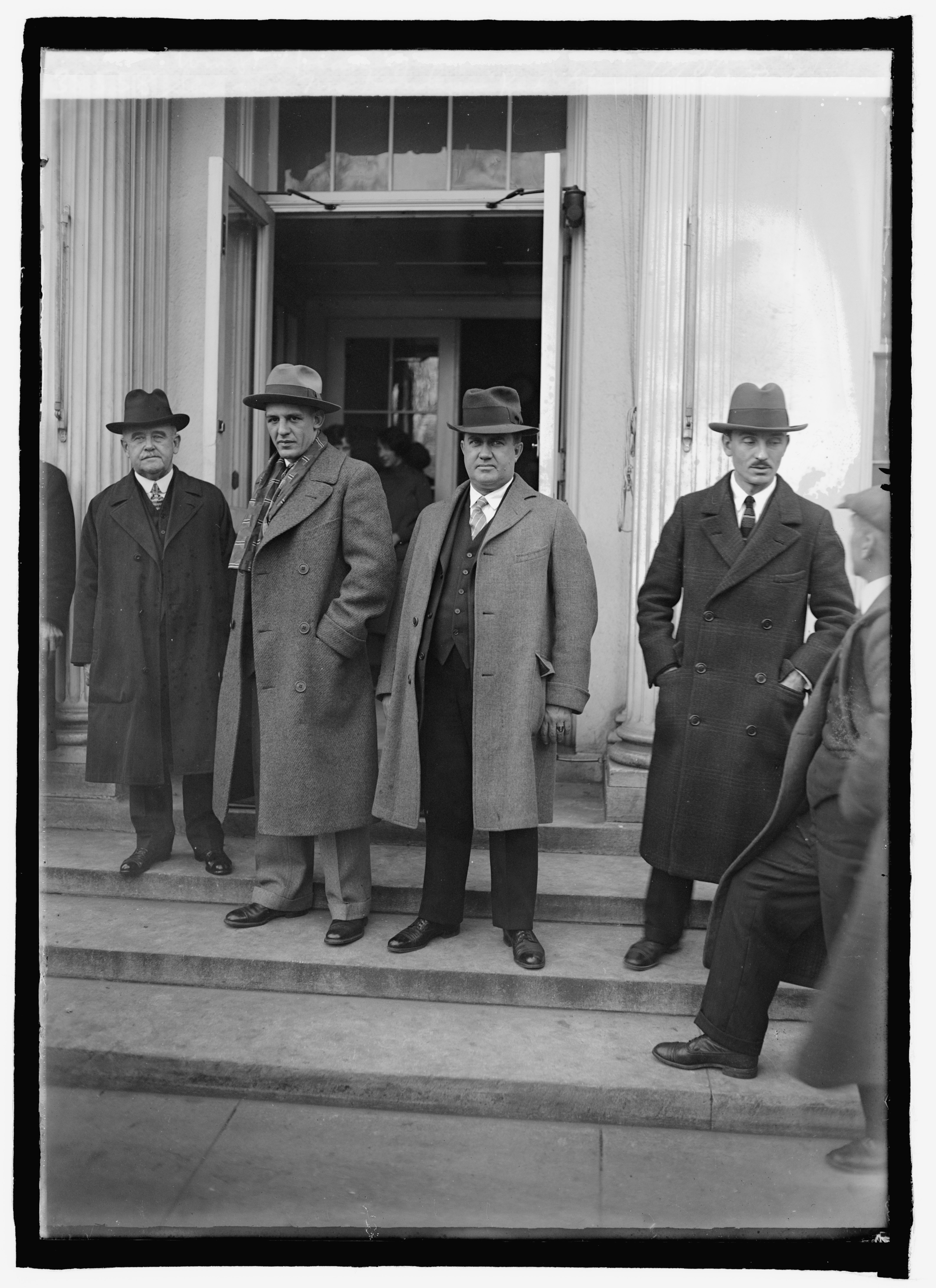 Title: Senator McKinley, "Red" Grange & Rep. Wm. P. Holaday, 12/8/25 Abstract/medium: 1 negative : glass ; 5 x 7 in. or smaller